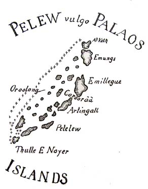 Map of Palau reproduced in the 1788 book by George Keate, Account of the Pelew Islands, from the Journals of Captain Henry Wilson and some of his officers, shipwrecked there in the Antelope in August 1783.